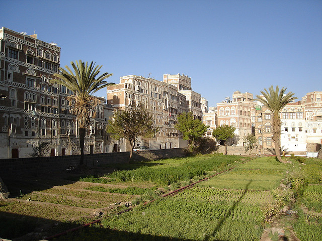 Old Sana'a